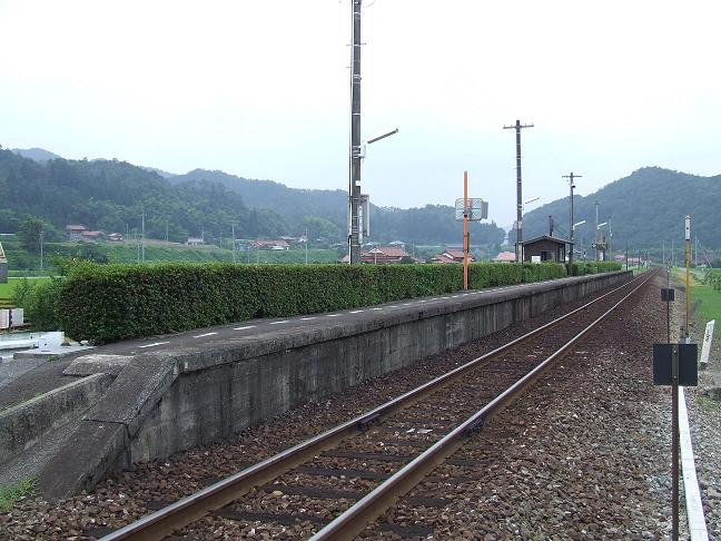 Watarikawa Station platform